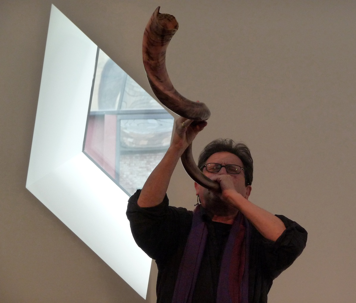 Alvin Curran playing a shofar next to window in performance at Contemporary Jewish Museum, San Francisco, on March 15, 2009. Photo by Susan Levenstein.